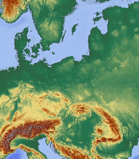 Topographic map of Central Europe